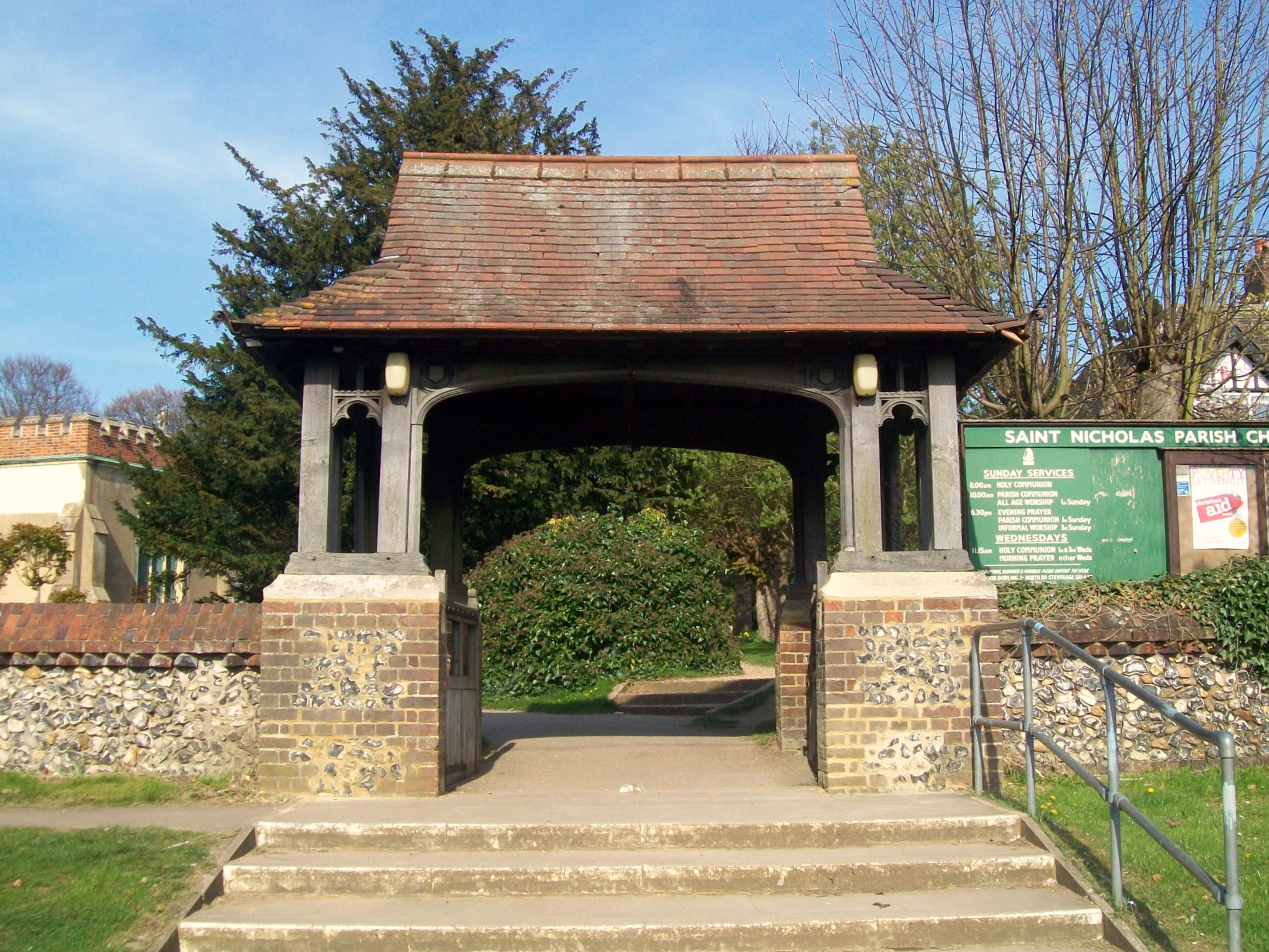 St Nicholas Parish Church, Lychgate, Stevenage, 22 April 2010